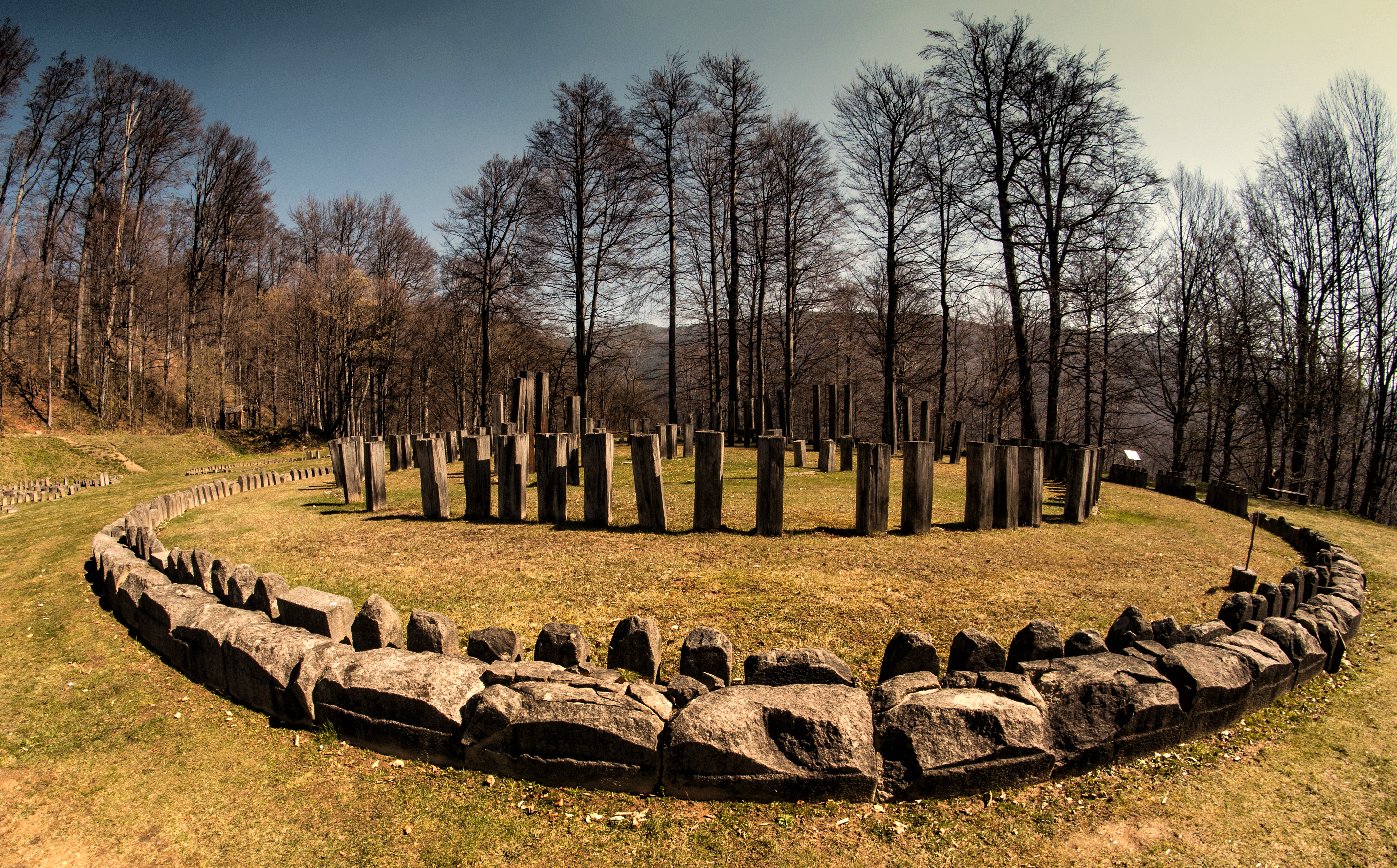 Sarmizegetusa Regia, located in the Grădiștea Muncelului village, Hunedoara county, considered to be the capital city of pre-Roman Dacia